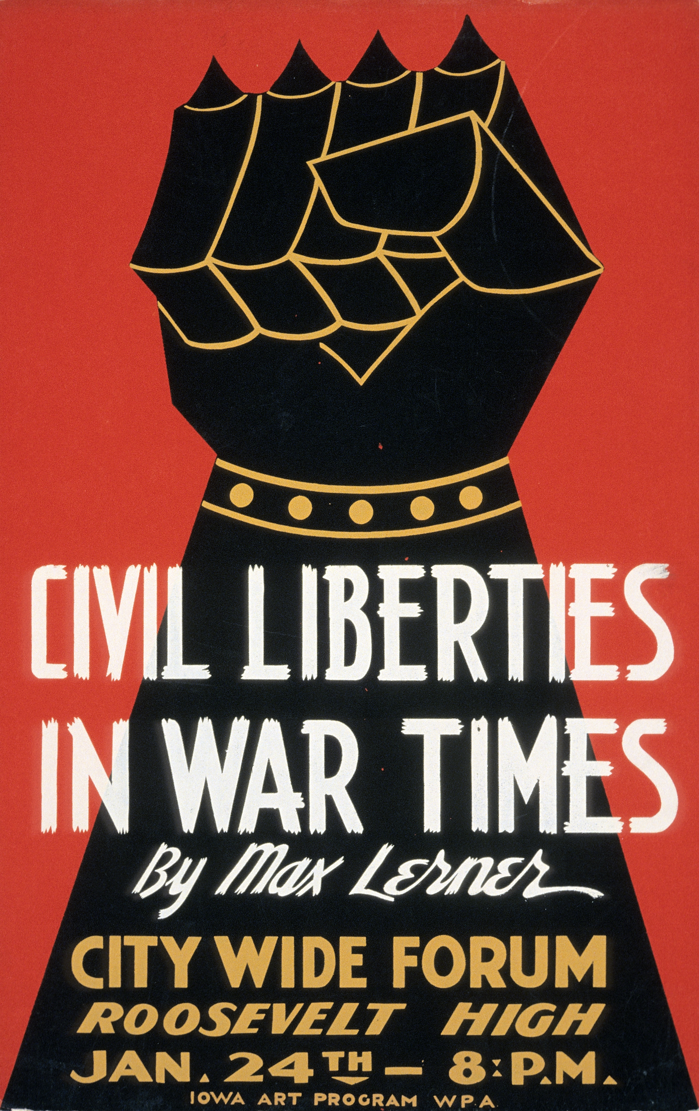 "Civil Liberties in War Times by Max Lerner. City Wide Forum. Roosevelt High. Jan 24th 8 p.m. Iowa Art Program WPA." Color silkscreen poster for a lecture by American journalist and educator Max Lerner (1902-1992) at Roosevelt High, Des Moines, Iowa, showing an armored gauntlet clenched in a fist.